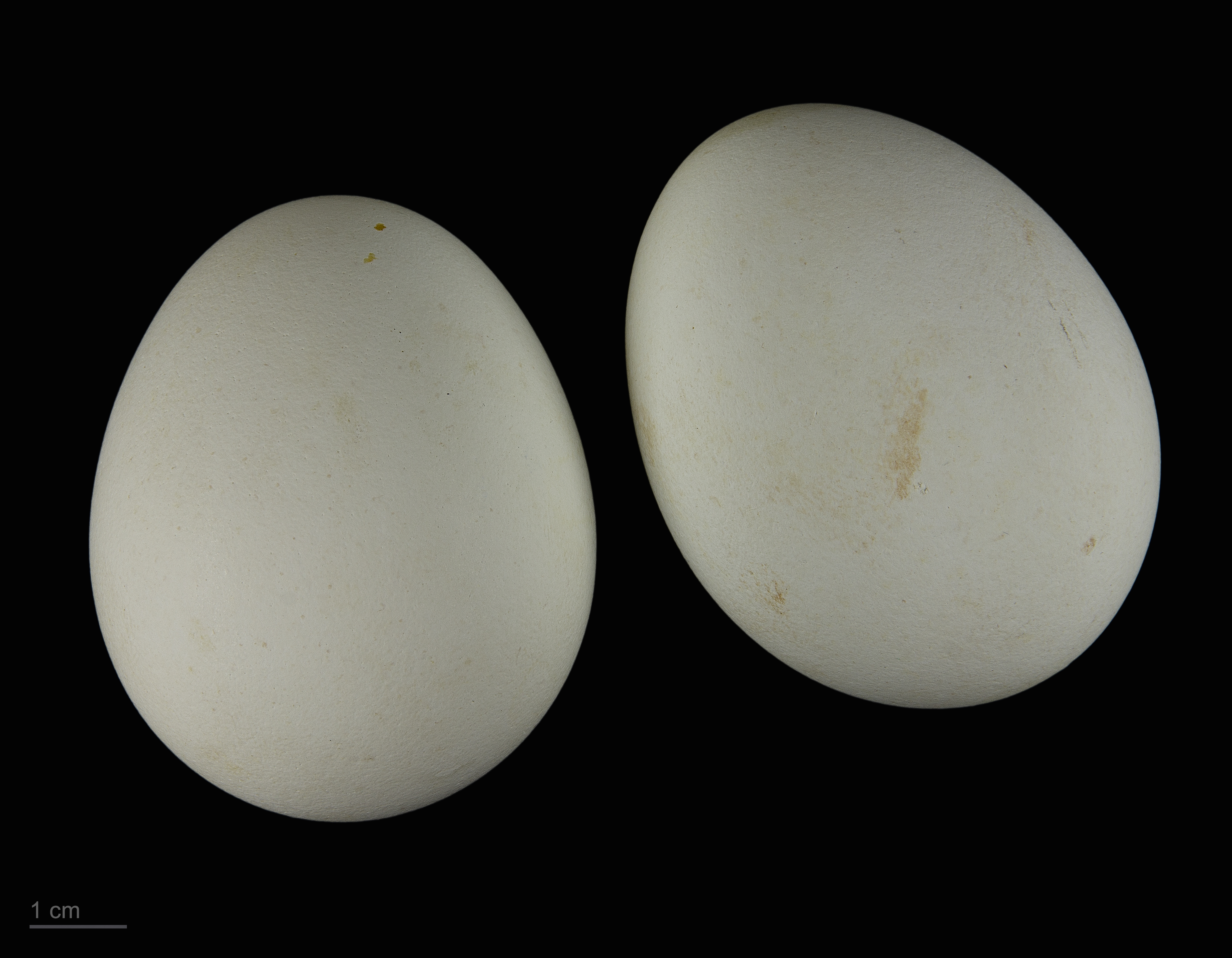 Eggs of booted eagle Two specimens of the same spawn ; collection of Jacques Perrin de Brichambaut.